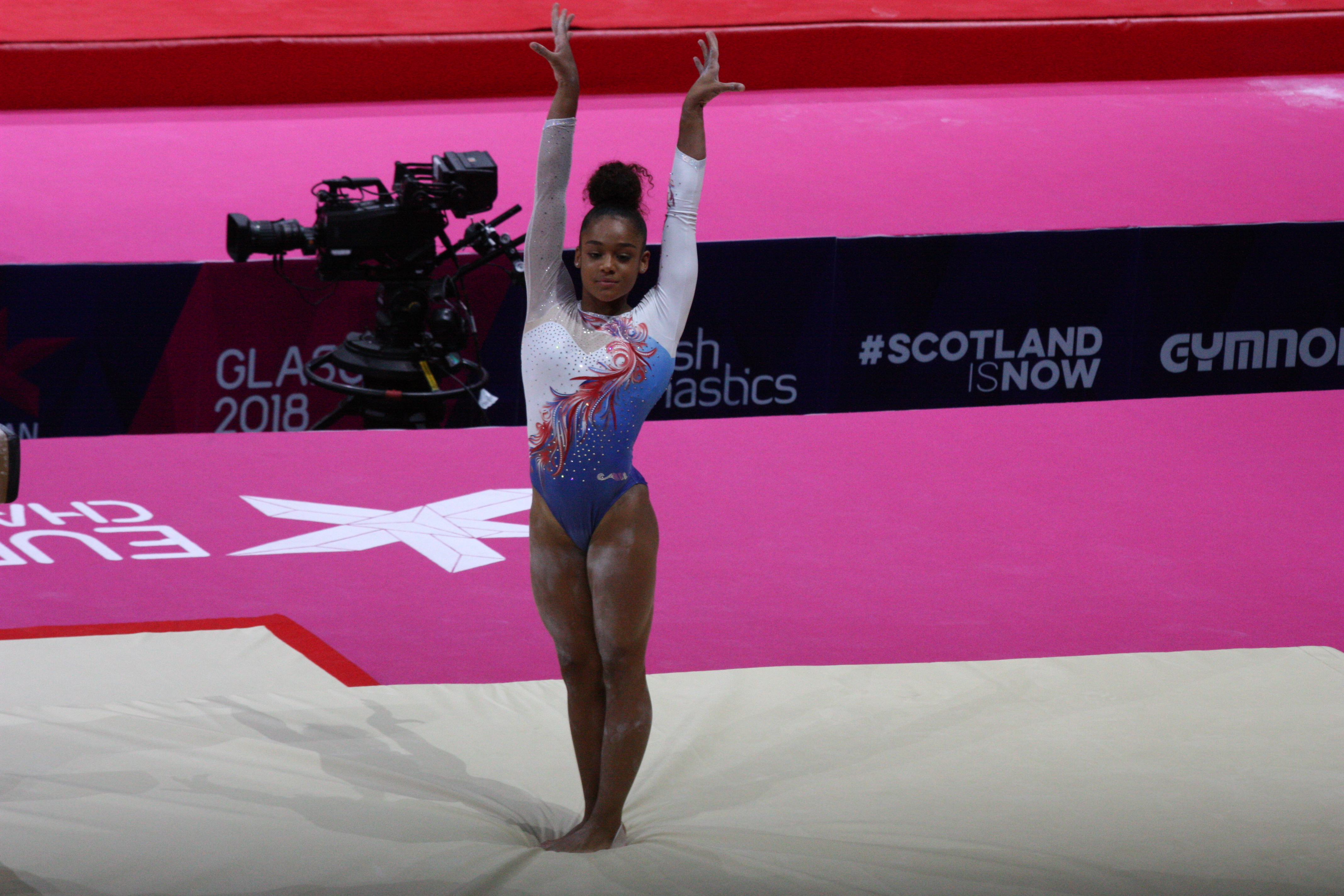 Mélanie de Jesus dos Santos during the qualifications of the 2018 European Championships in Glasgow.